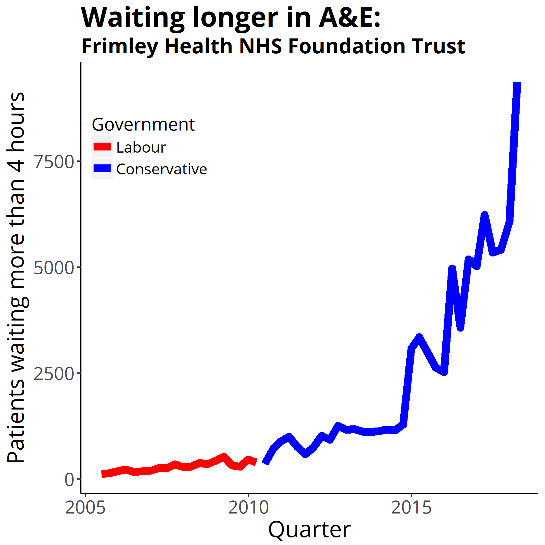 Four-hour target in the emergency department quarterly figures from NHS England Data from